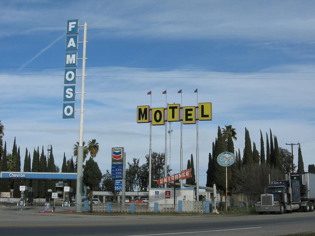 Vintage road signs off state highway 99 in Famoso, CA.